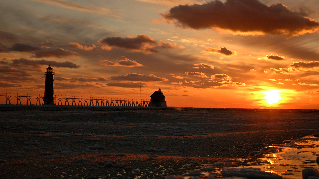 View of the the Grand Haven Lighthouse